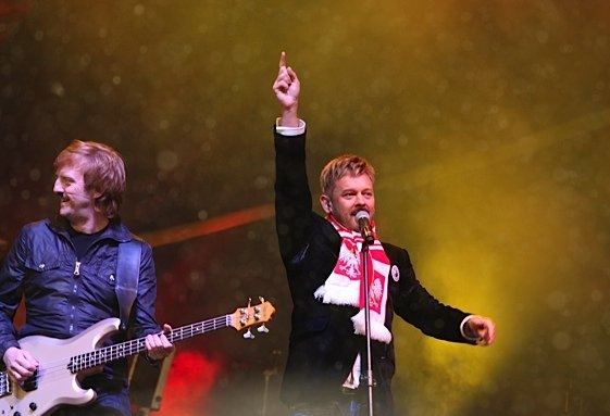 Paweł Stasiak and Waldemar Kuleczka (in the background) during Adam's Bull's Eye on 26 March 2011 in Zakopane.